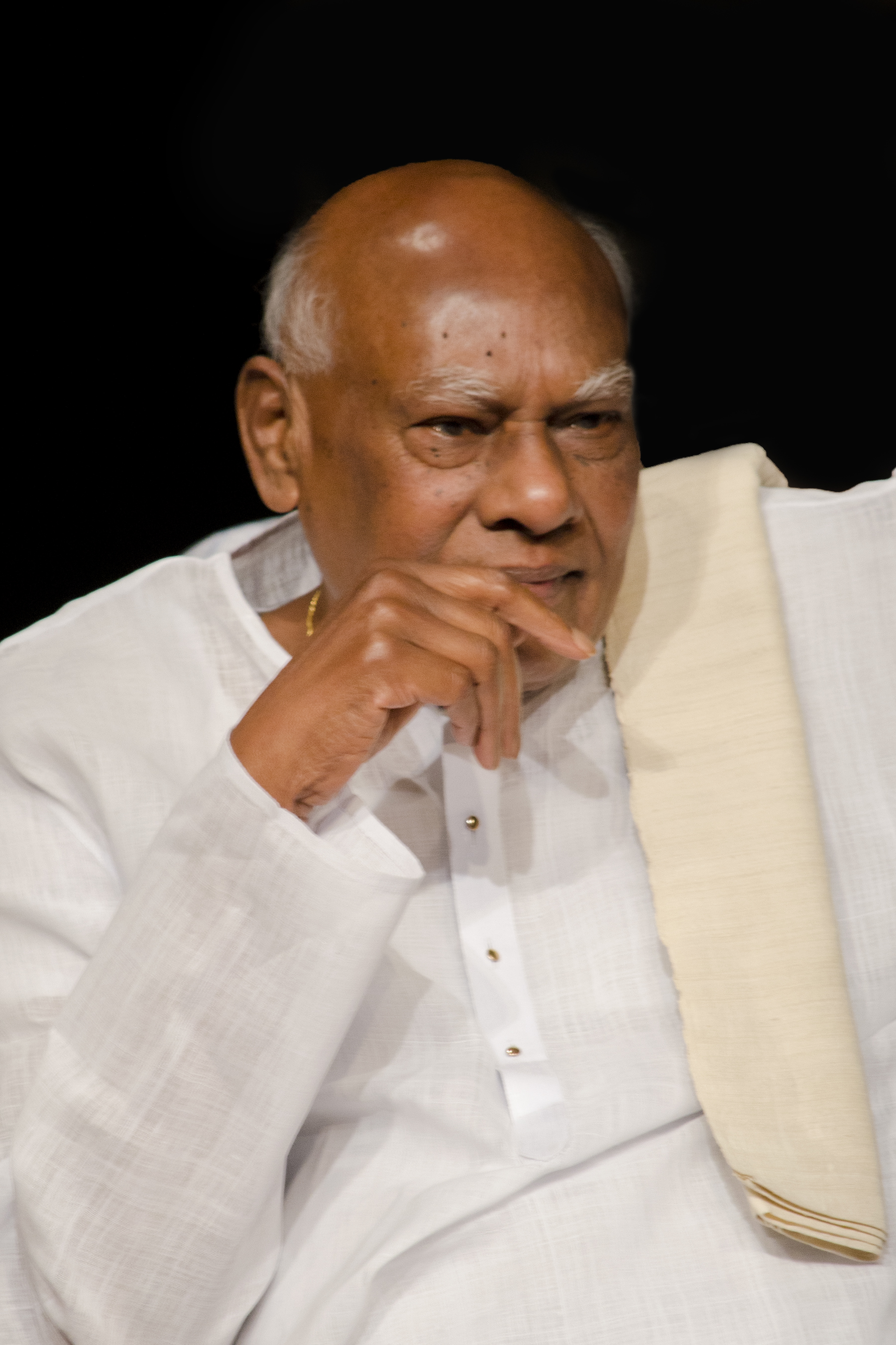 K Rosaiah, Governor